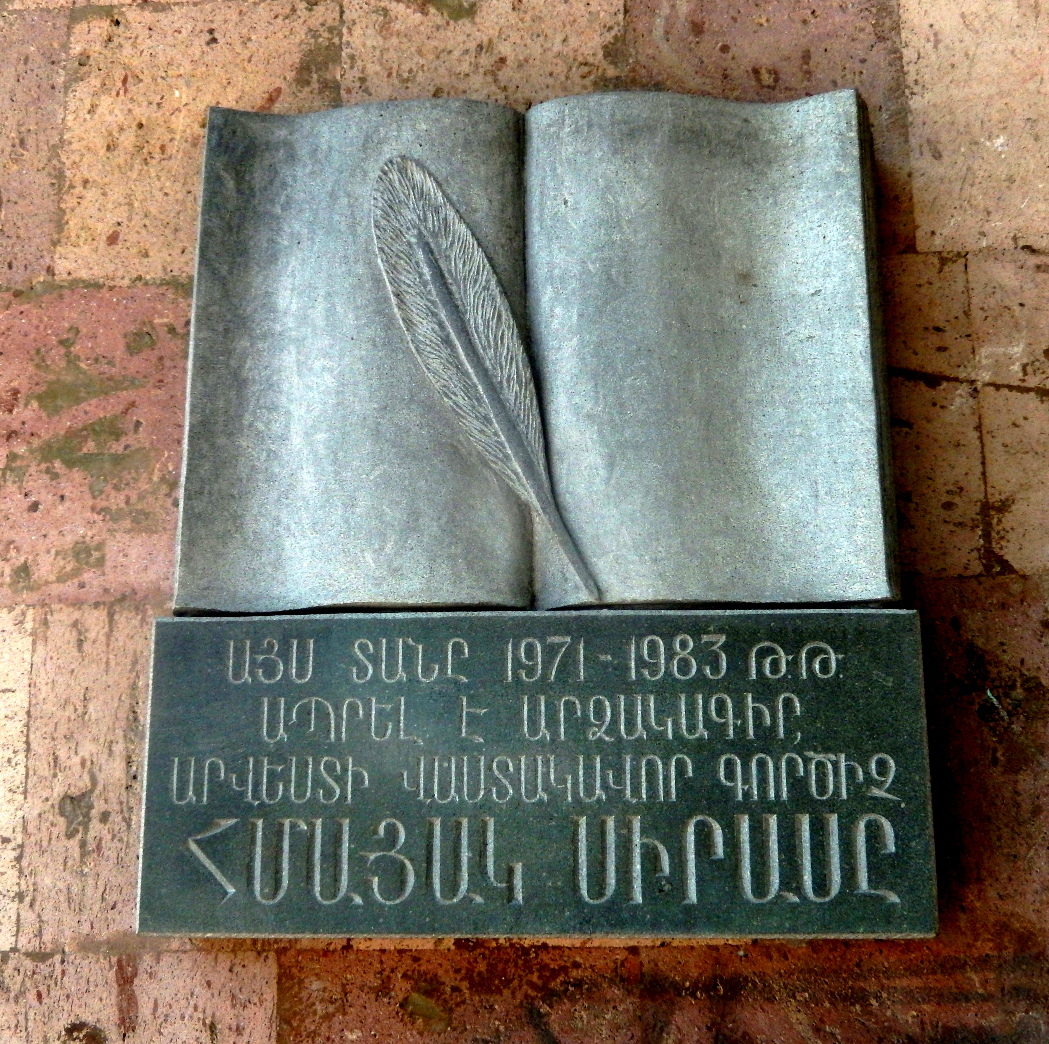 Hmayak Siras plaque